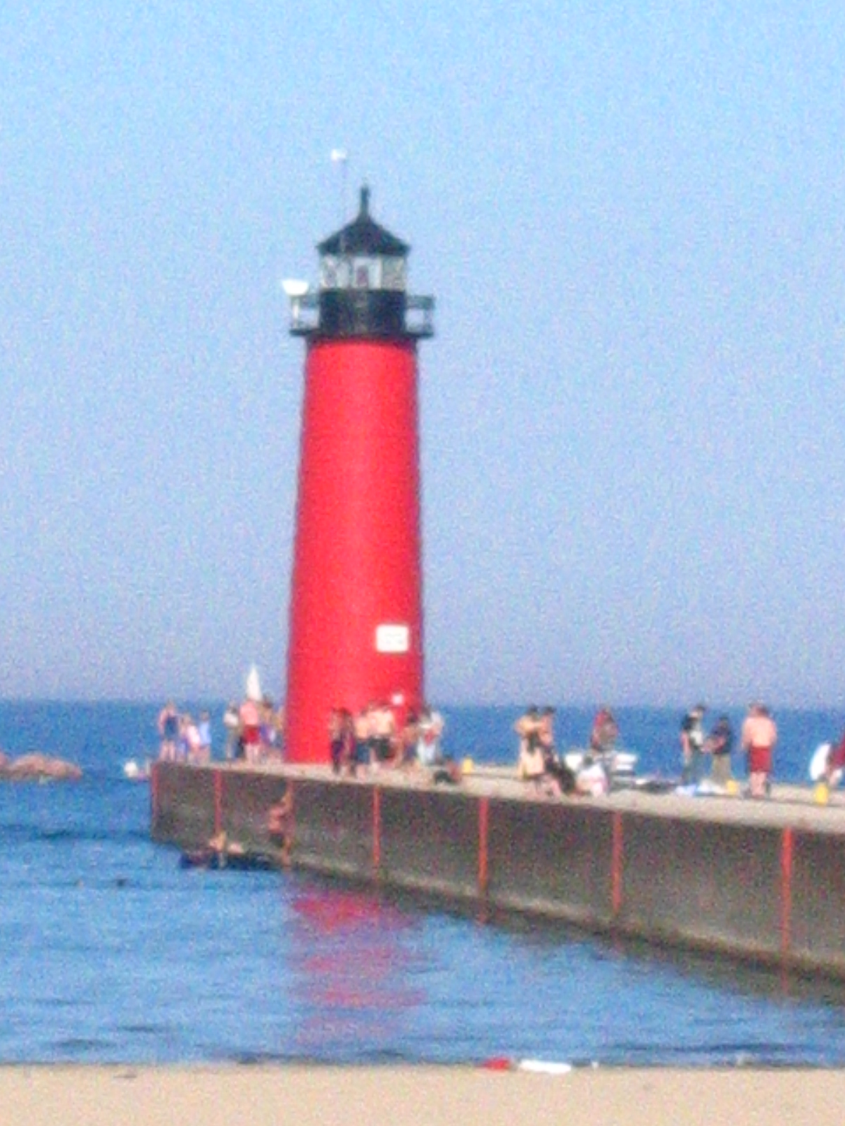 The distinctive red Kenosha Lighthouse is the symbol of Kenosha. It used to be a beacon for industrial shipping but is now used for recreational purposes.